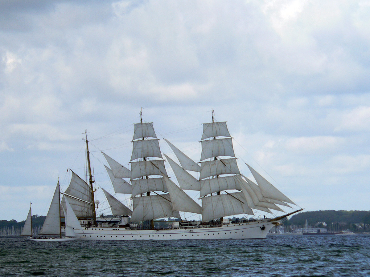 German Navy's training ship Gorch Fock (1958) under full sails (missing: Besantoppsegel) in the Kiel Fjord on a level with Laboe Naval Memorial.